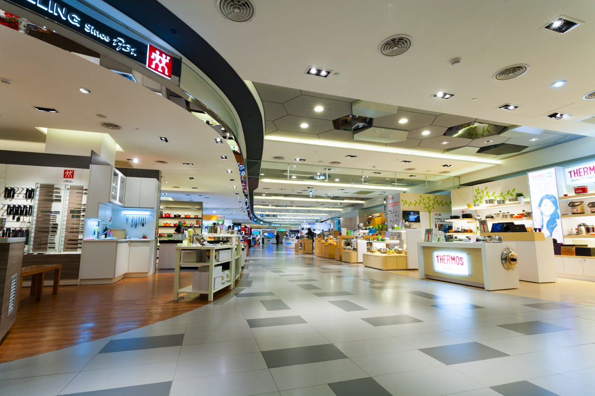 taimall 2015